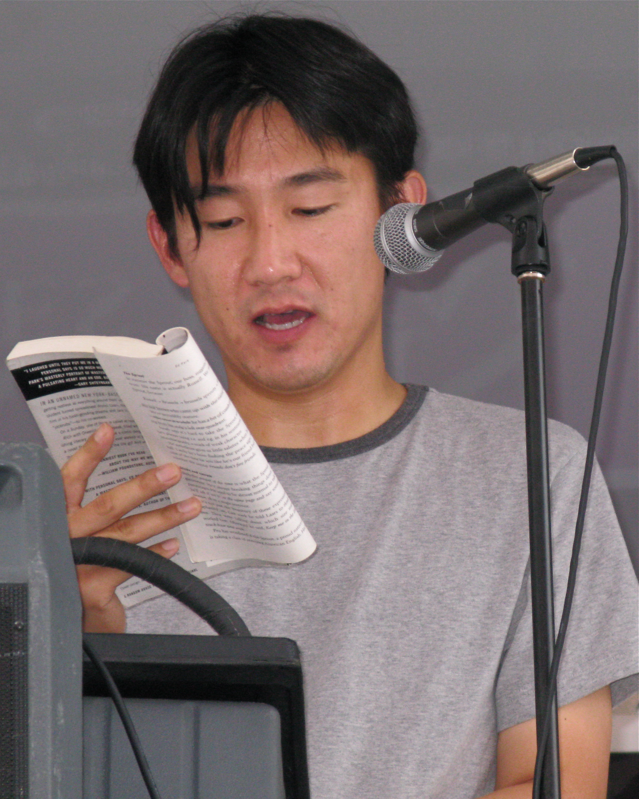 Ed Park in 2008